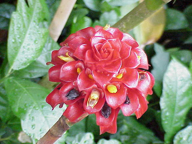 Species: Tapeinochilos ananassae Family: Zingiberaceae Image No. 3